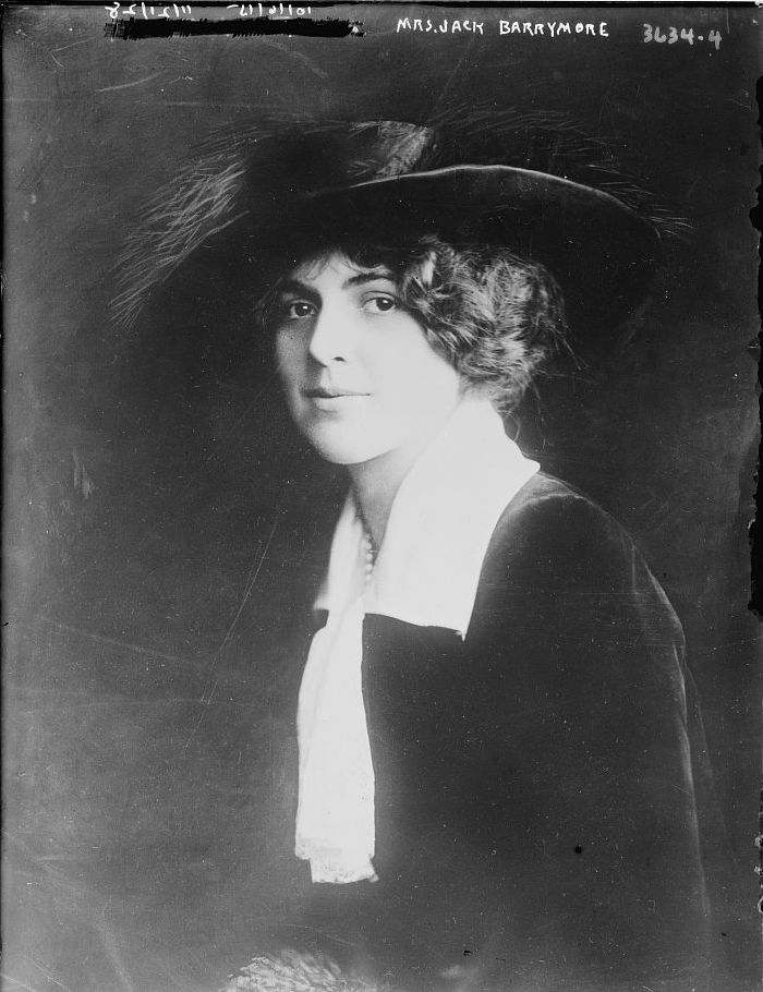 Bain News Service/LOC ggbain.20135. Blanche Oelrichs, between 1910 and 1915